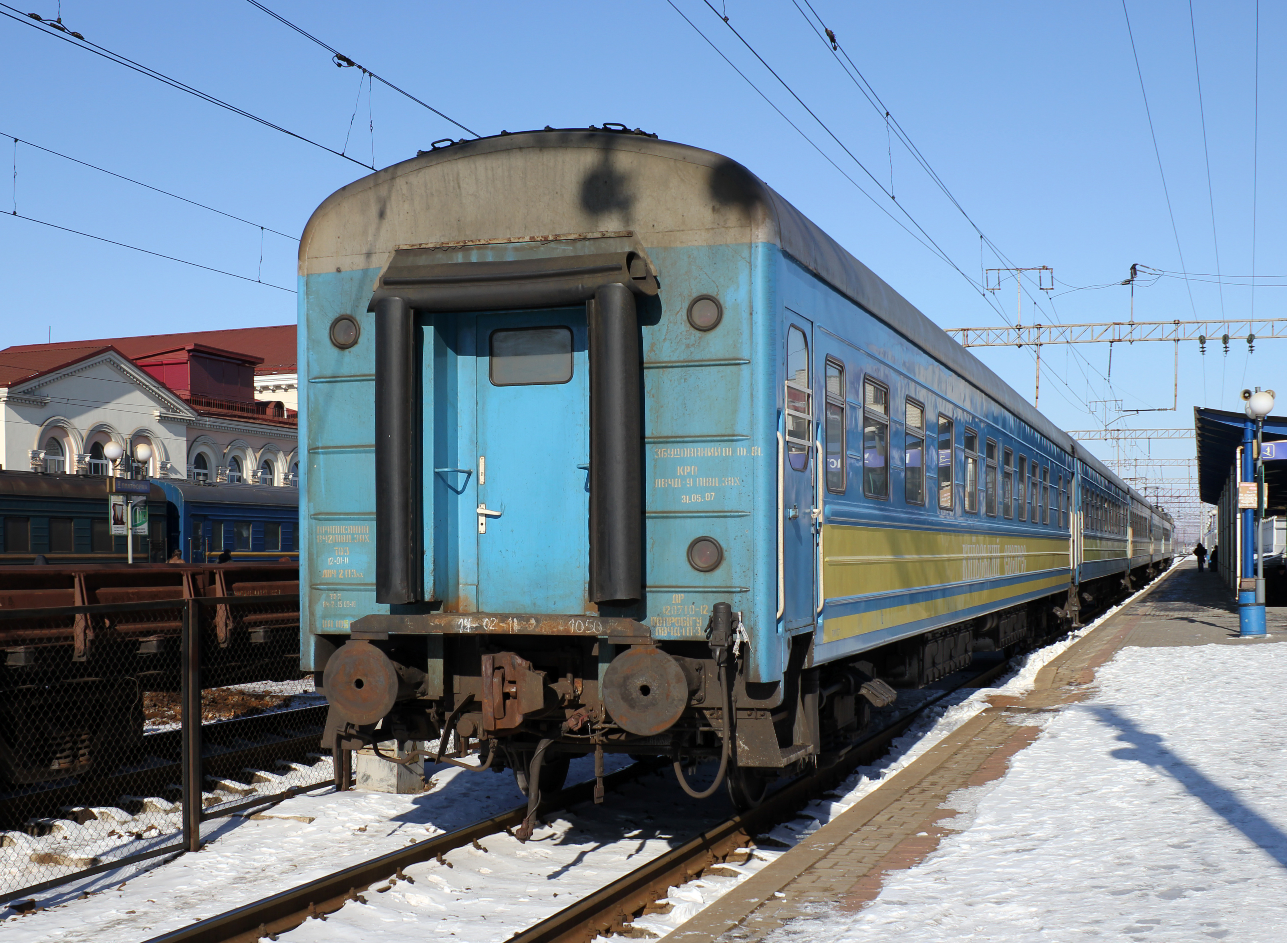 Express train of Kiev in Vinnitsa railway station.